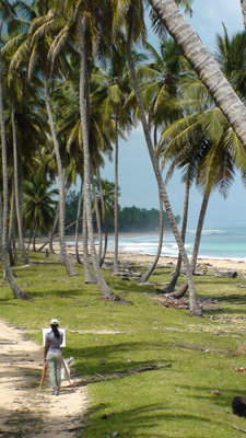 Olivia Peguero Dominican Republic Artista in MIches painting en plein air